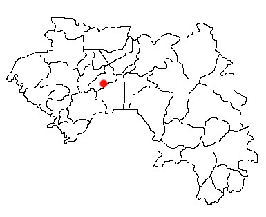 Dalaba, Guinea Location Map; created with the GIMP. Made by User:Acntx.